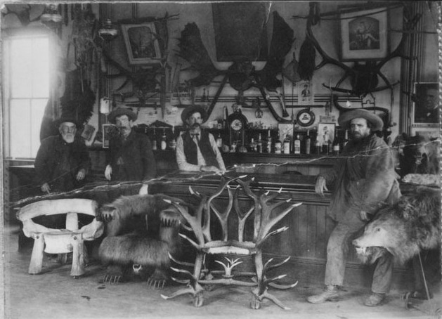 1889 photo of the Interior of Table Bluff Hotel and Saloon in Table Bluff, Humboldt County, Calif., 1889 URL: Additional copy owned by Sonoma County Museum, Santa Rosa, Calif., photo number 85.186.1 Chairs created by Seth Kinman whose photograph hangs over the right hand side of bar. Scanned from original photo, June 2008. Owned by Sonoma County Library. Also available in electronic form via the World Wide Web; digitized by the Sonoma County Library. Sonoma County Library can claim only physical ownership of the image (s) described in this record. It is impossible for us to determine fully or completely the identity of possible claimants of copyright. The responsibility for identifying and satisfying copyright claims must be assumed the user/publisher. Preferred credit line is: Courtesy, the Sonoma County Library.